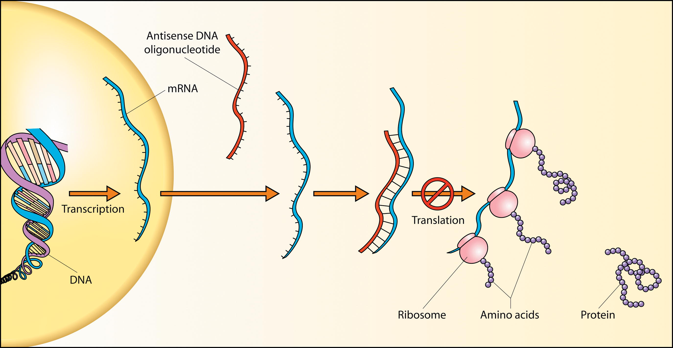 Schematic showing how antisense DNA prevents protein translation.